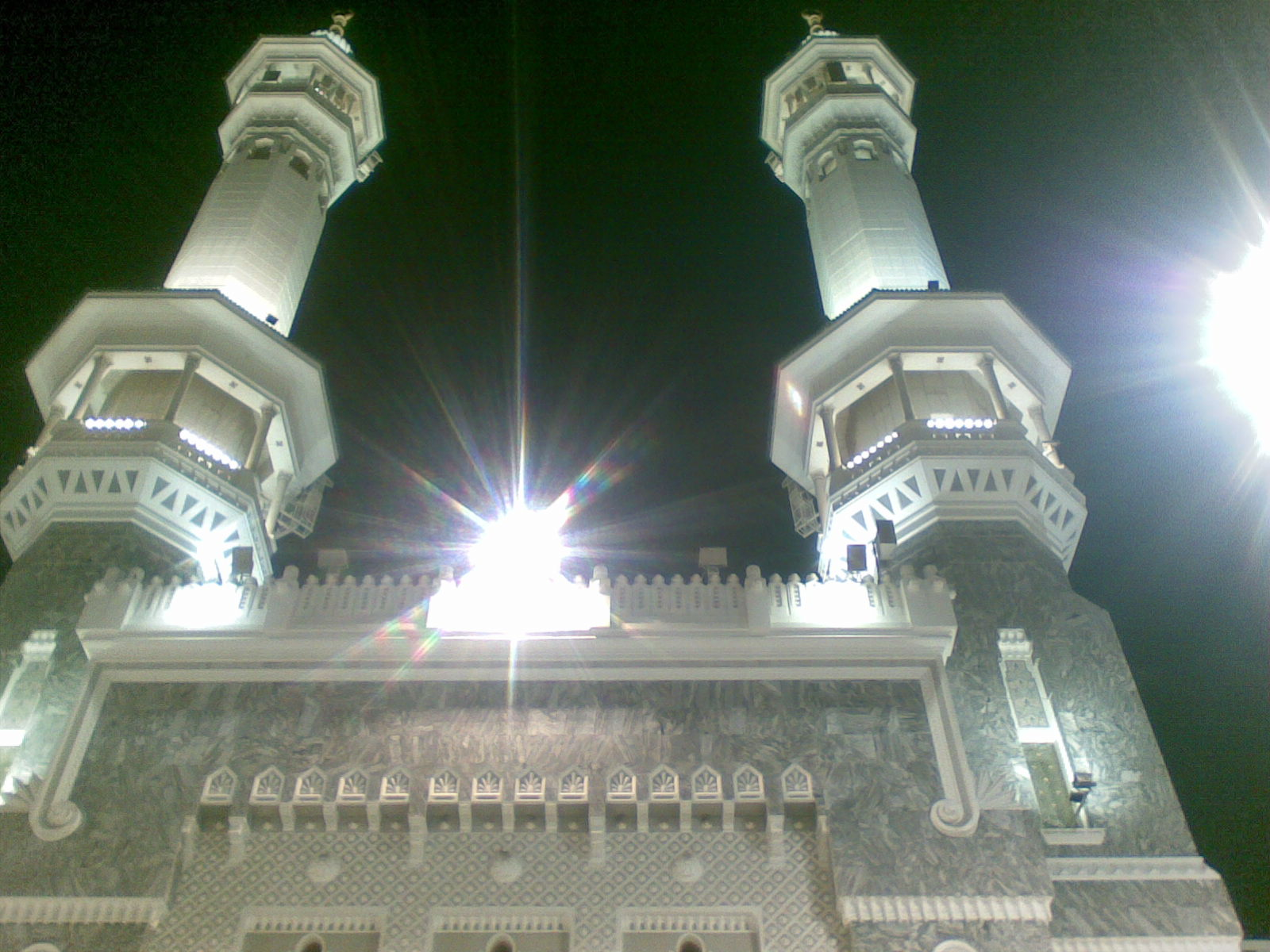 Haram minaret